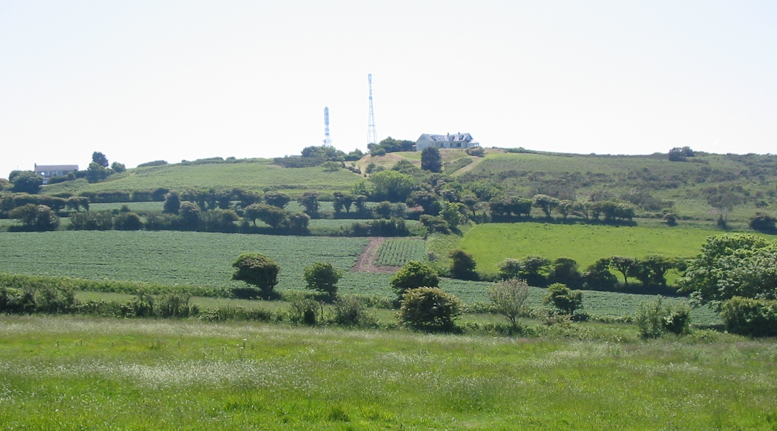 Sights of the Northern Parishes of Jersey Nrf: Eune touônnée au mais d'Mai siez les Nordgiens en Jèrri